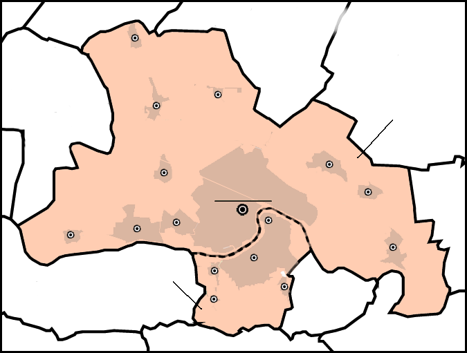 Map is based on this one originally created by User:PANONIAN thumb|500px|center|Novi Sad municipality and User:Goran.Smith2 thumb|500px|center|Novi Sad municipality